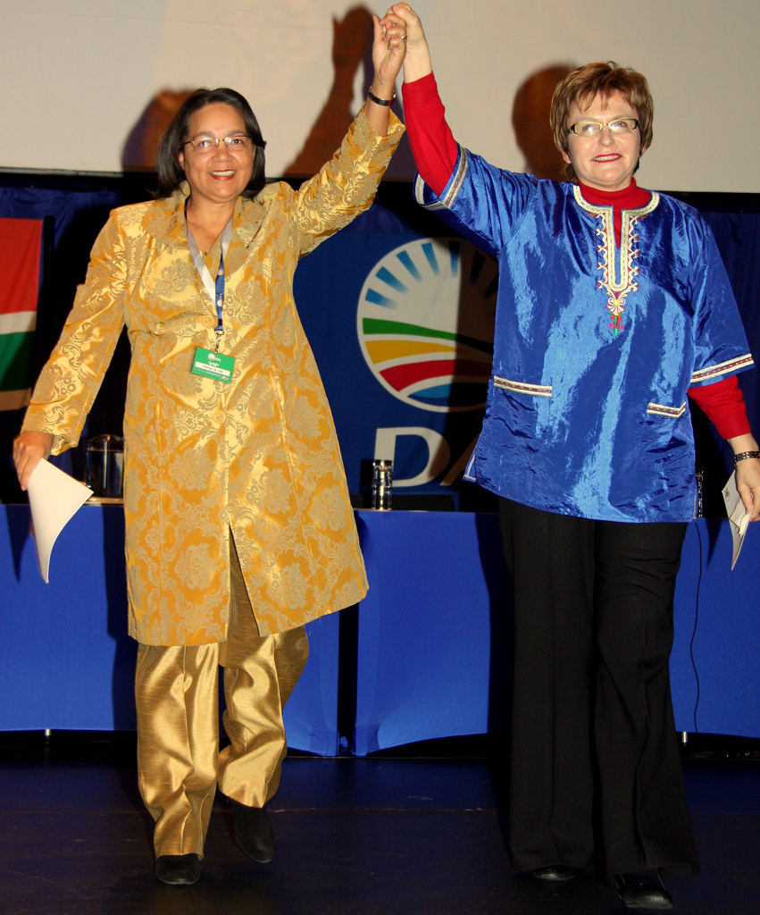 Helen Zille and Patricia de Lille at the Democratic Alliance Federal Congress